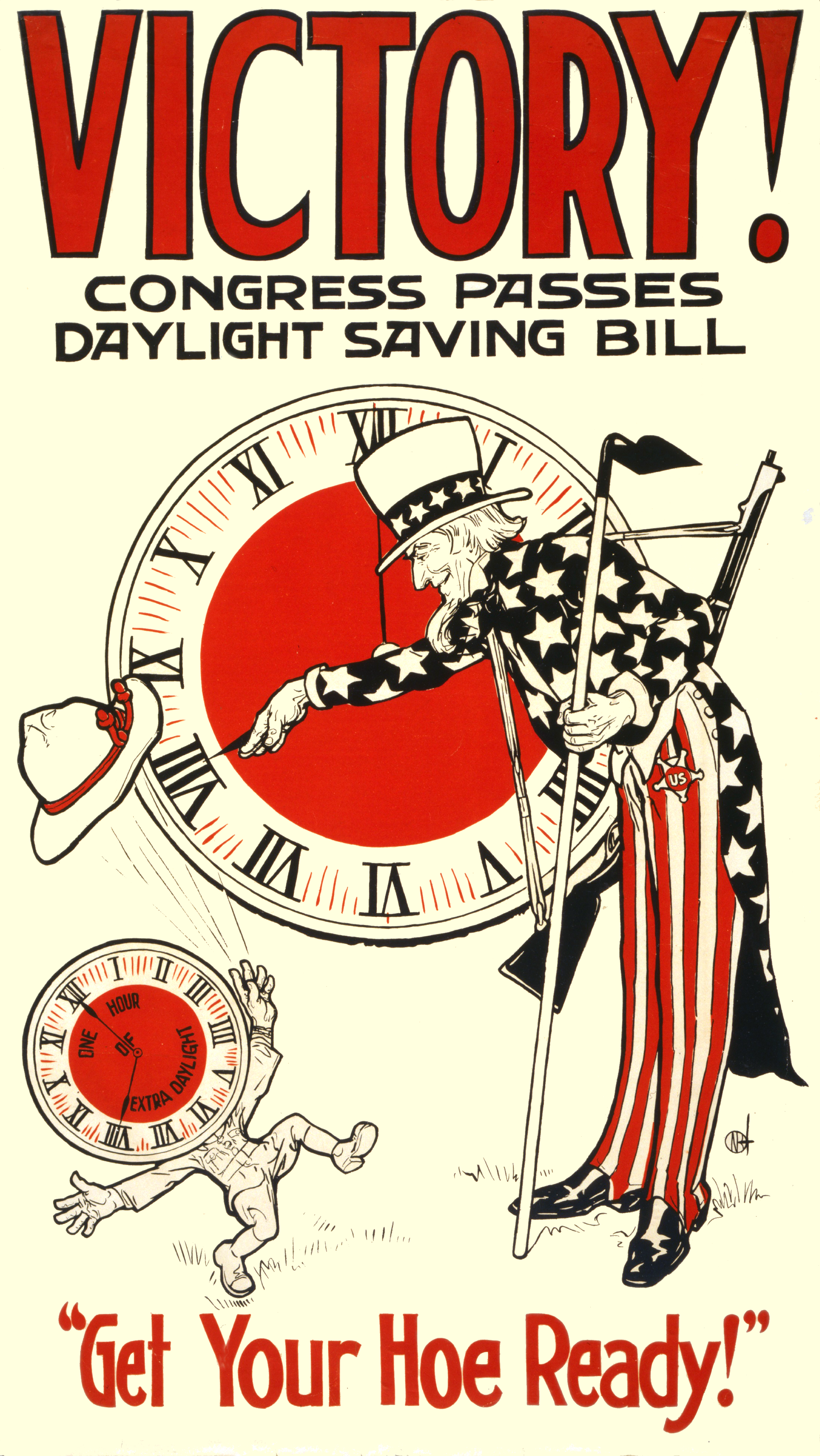 Poster titled "VICTORY! CONGRESS PASSES DAYLIGHT SAVING BILL" showing Uncle Sam turning a clock to daylight saving time as a clock-headed figure throws his hat in the air. The clock face of the figure reads "ONE HOUR OF EXTRA DAYLIGHT". The bottom caption says "Get Your Hoe Ready!" The original artist's monogram has not been identified. The original color lithograph is 95 cm × 53 cm. The Library of Congress archival photograph was cropped to include only the poster's contents, and the contents were cleaned up using Photoshop. The original, uncleaned-up version is at Image:Victory-Cigar-Congress-Passes-DST.png.